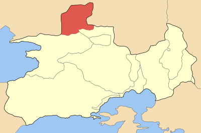 Locator map of Erythron municipality (Δήμος Ερυθρών) at West Attica perfecture, Greece.